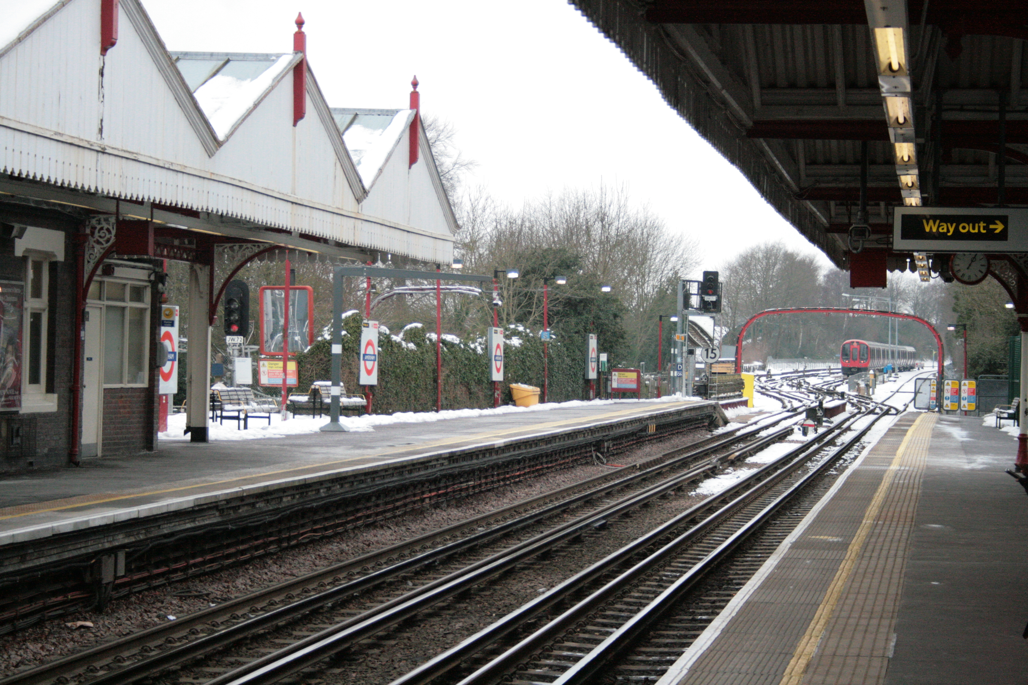 Amersham Station after a night of snow, with new S type stock in the sidings